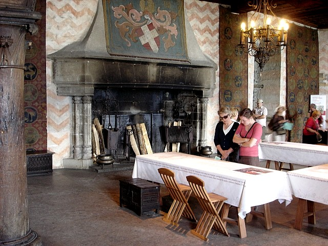 Chillon